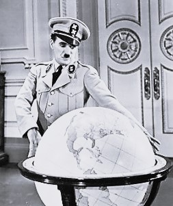 Cropped publicity still for the film The Great Dictator (1940)